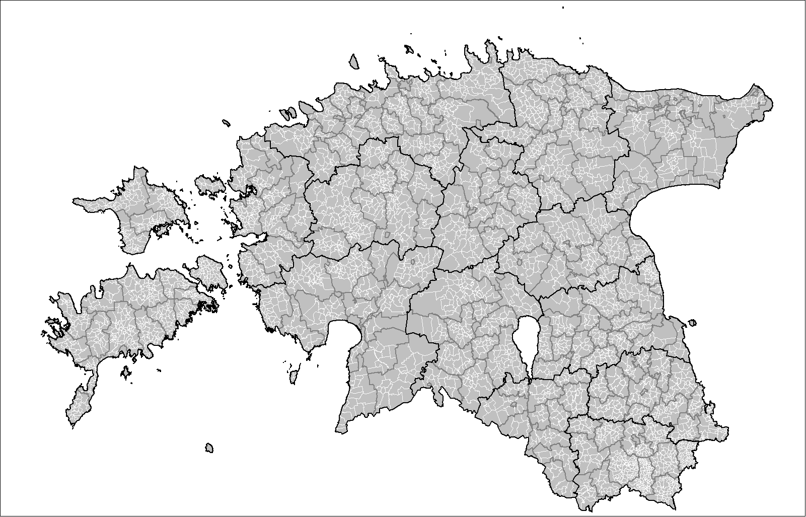 Map of the populated places of Estonia. Created by Rarelibra 17:40, 8 January 2007 (UTC) for public domain use, using MapInfo Professional v8.5 and various mapping resources.